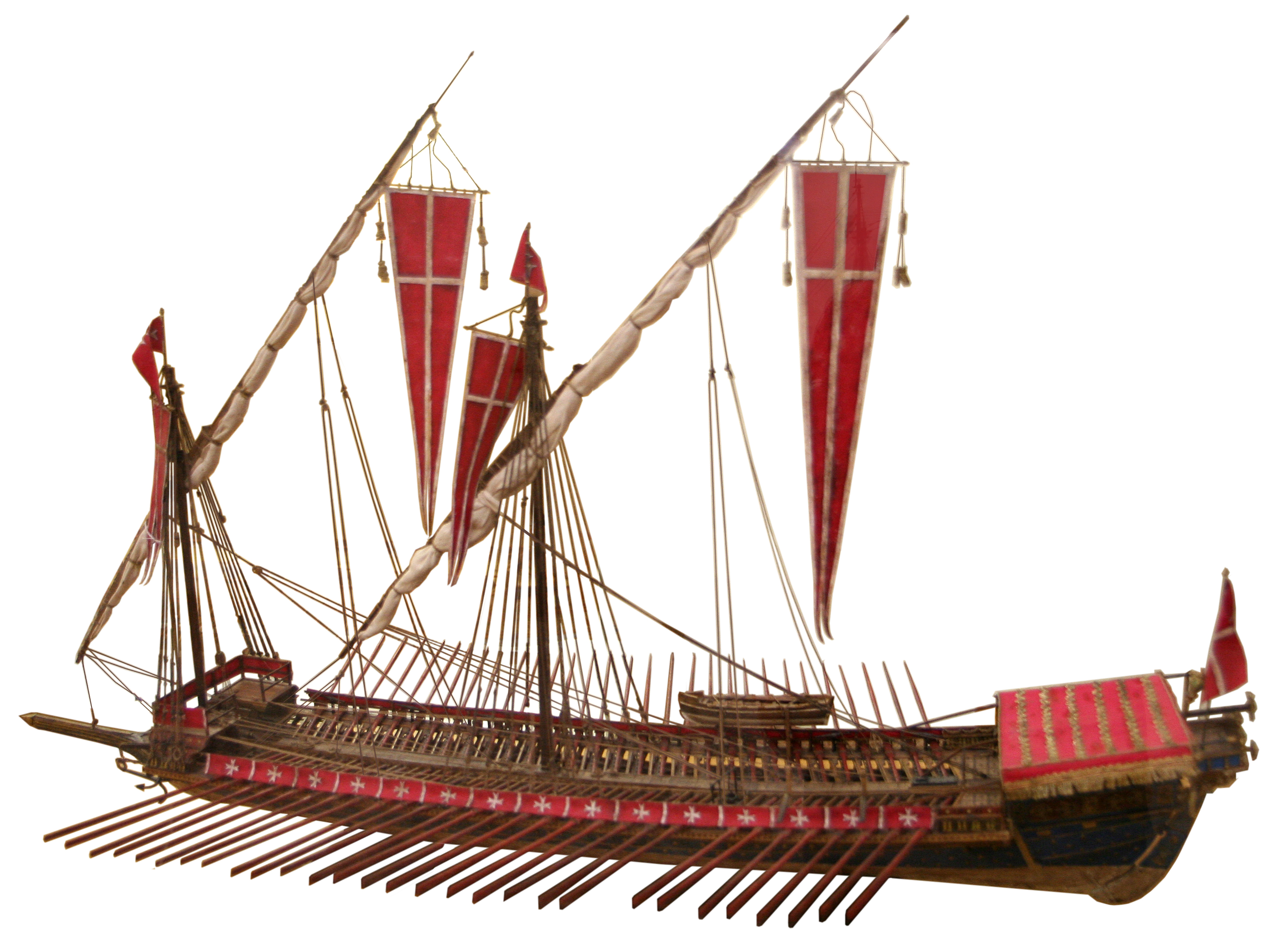 Galley, Maltese, by the Order of the Knights of St. John, wooden ship model from the Museo Storico Navale di Venezia (Naval History Museum) in Venice, Italy.